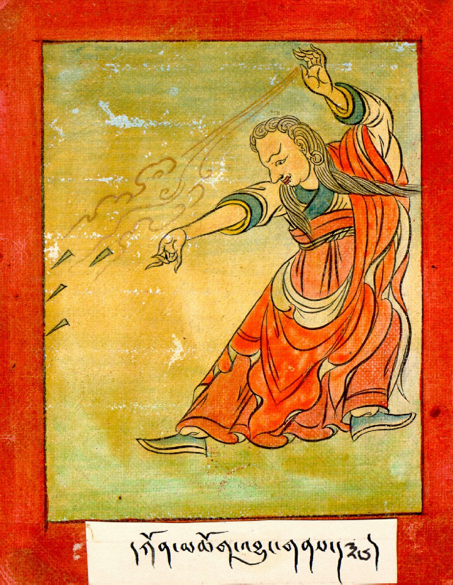 Konchog Jungne, 8th Century Tibetan monk